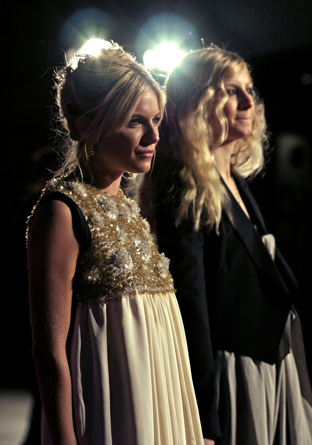 Sienna Miller at the London premiere for Factory Girl